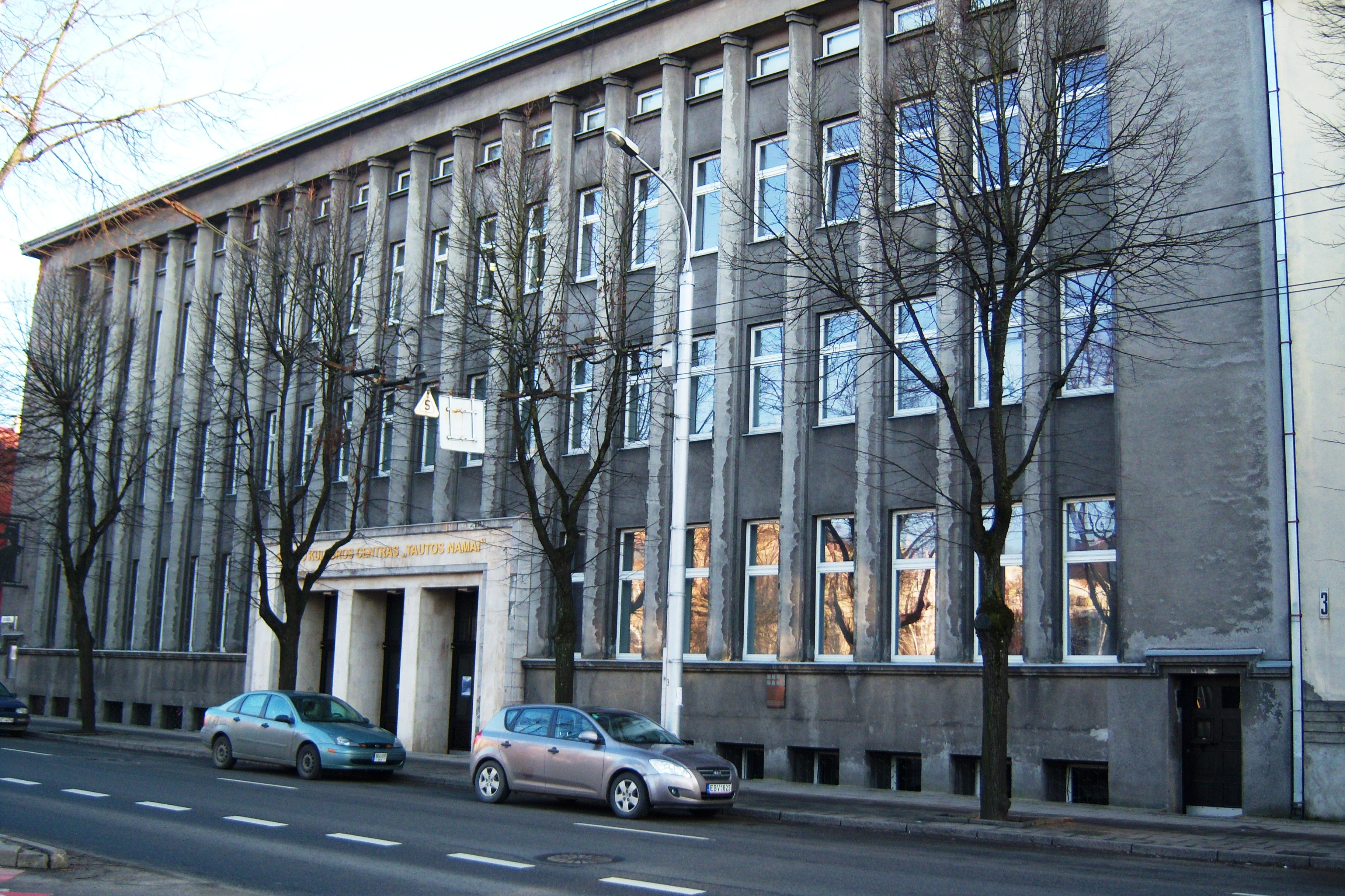 Former building of trade unions palace of culture in Kaunas. Lithuania